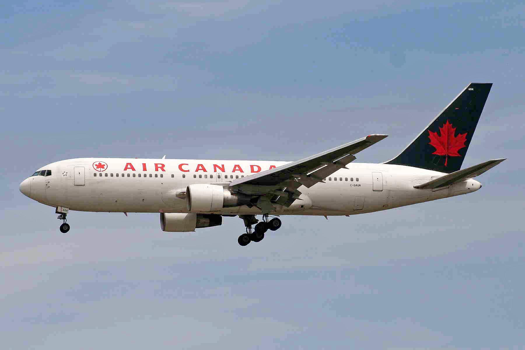 Aircraft was stored at Mojave (MHV), CA, USA, in Jan-08. It's time expired and unlikely to fly again. It's still stored at MHV (as of Jan-12).